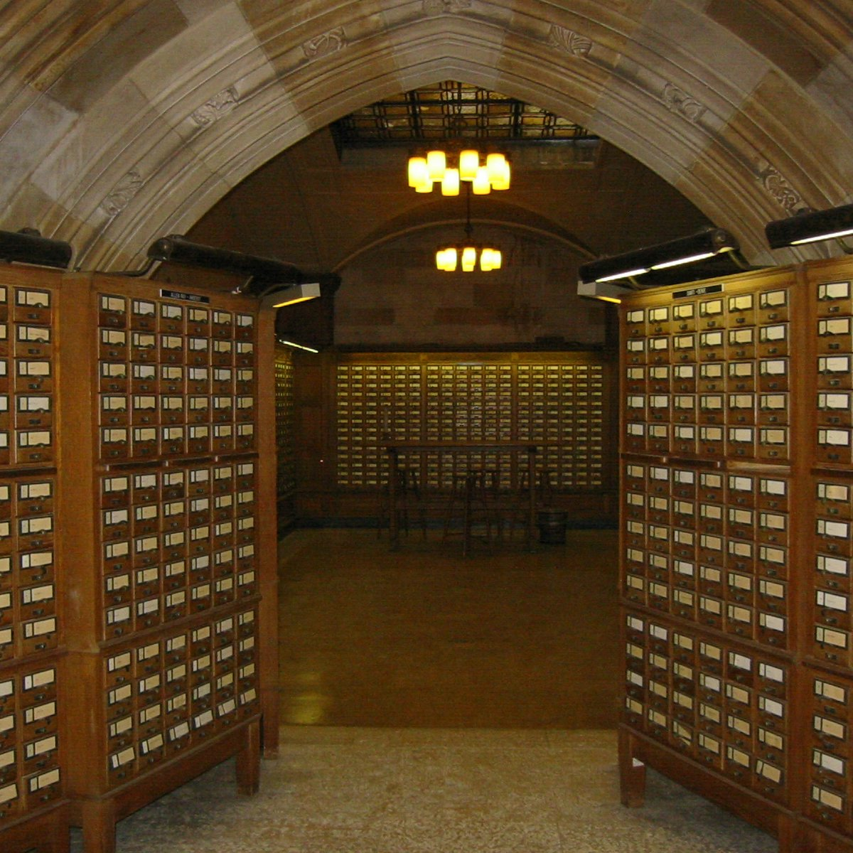 The obsolete card catalog files at Sterling Memorial Library, Yale University.